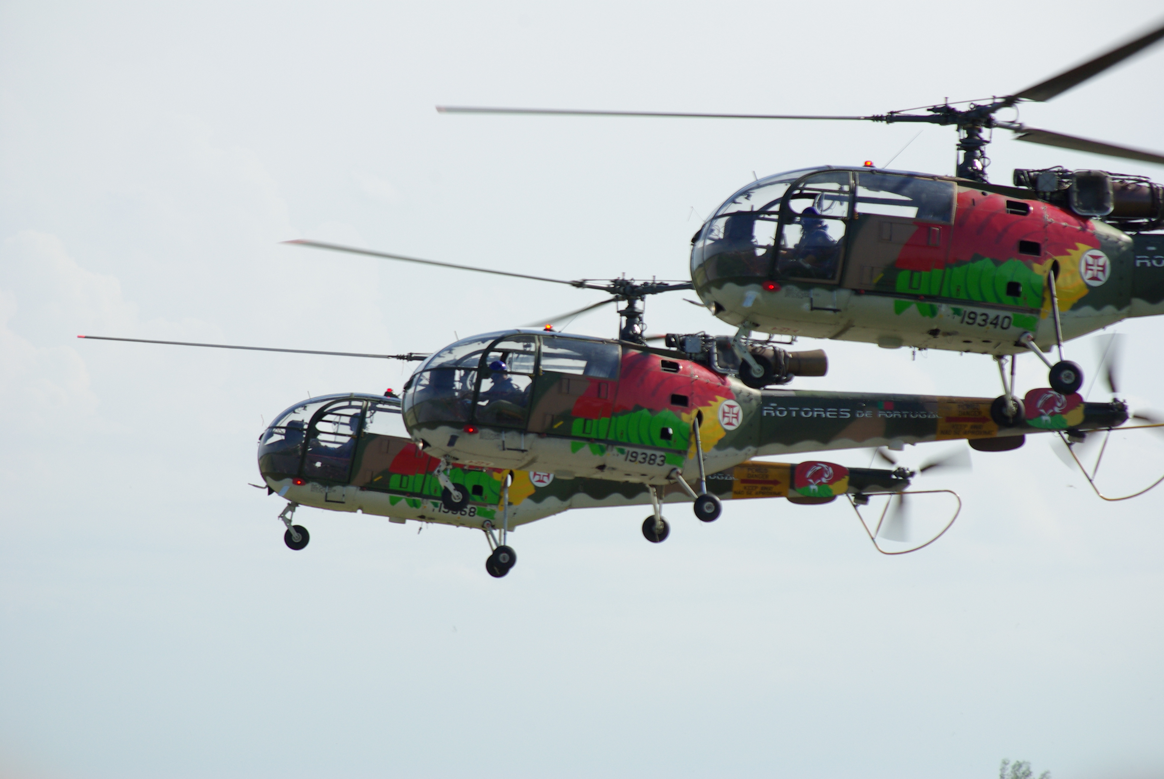 The aerobatic team Rotores de Portugal at the AirExpo air show 2009 (Muret, France).